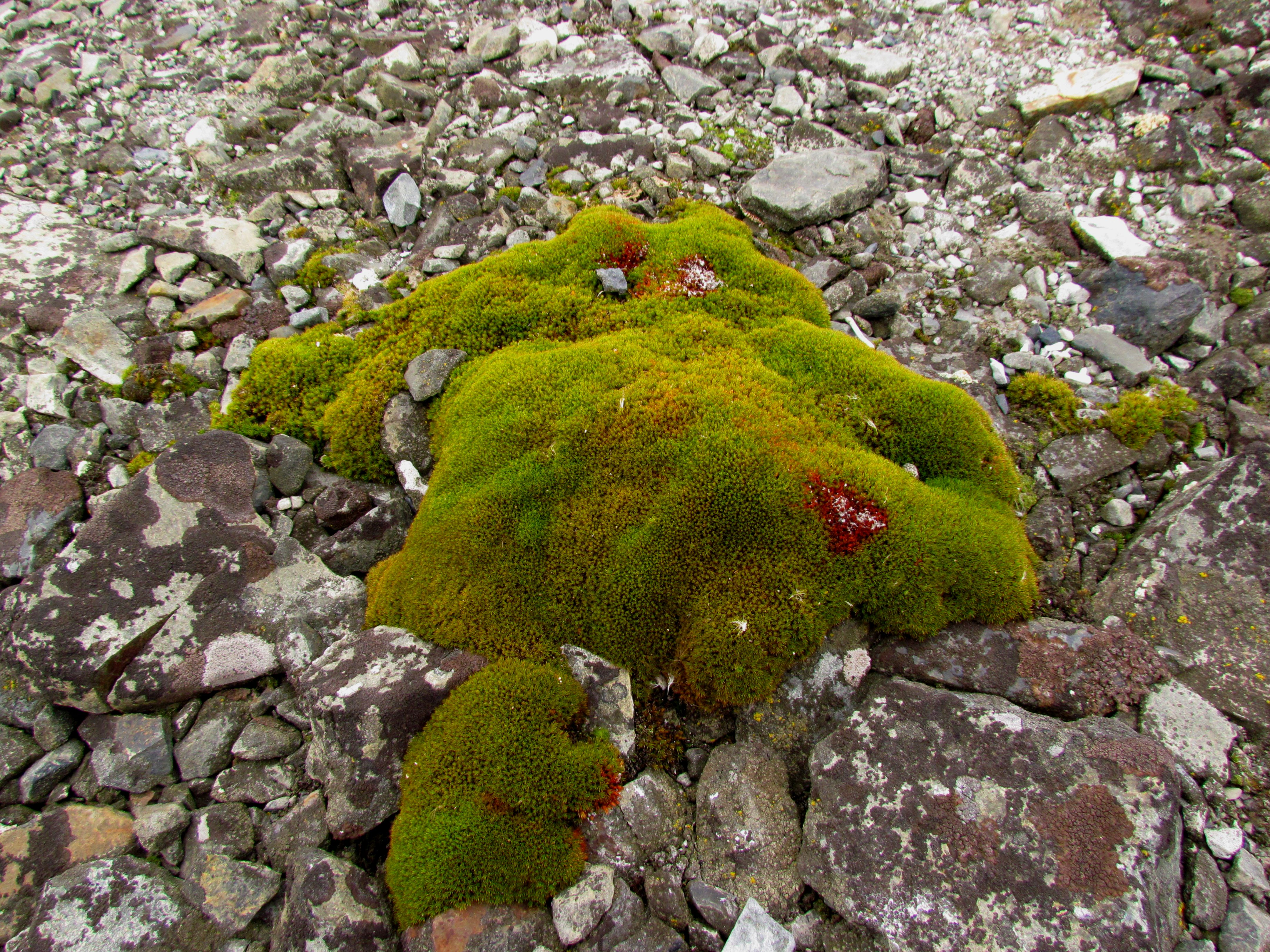 Moss at Esperanza Station, Graham Land, Antarctic Peninsula